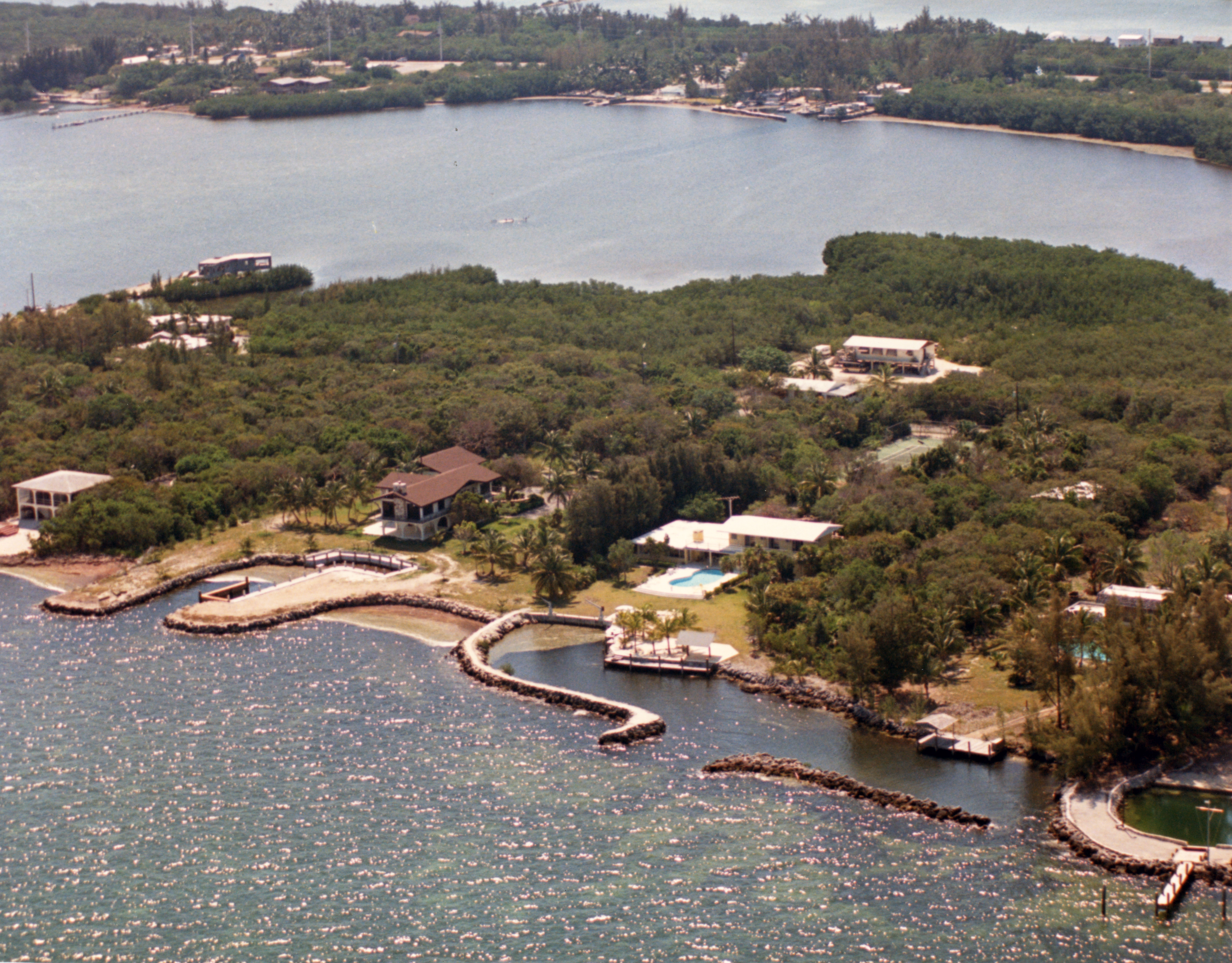 An aerial of Grassy Key. Photo taken by the Federal Government on October 7, 1987. From the Wright Langley Collection.